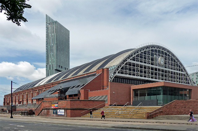 It has a massive segmentally-vaulted shed of wrought iron and glass (a span of 210 feet, only 30 feet less than St Pancras). Grade II* listed. The station closed in 1967, and was converted in 1986 by Essex, Goodman & Suggitt.